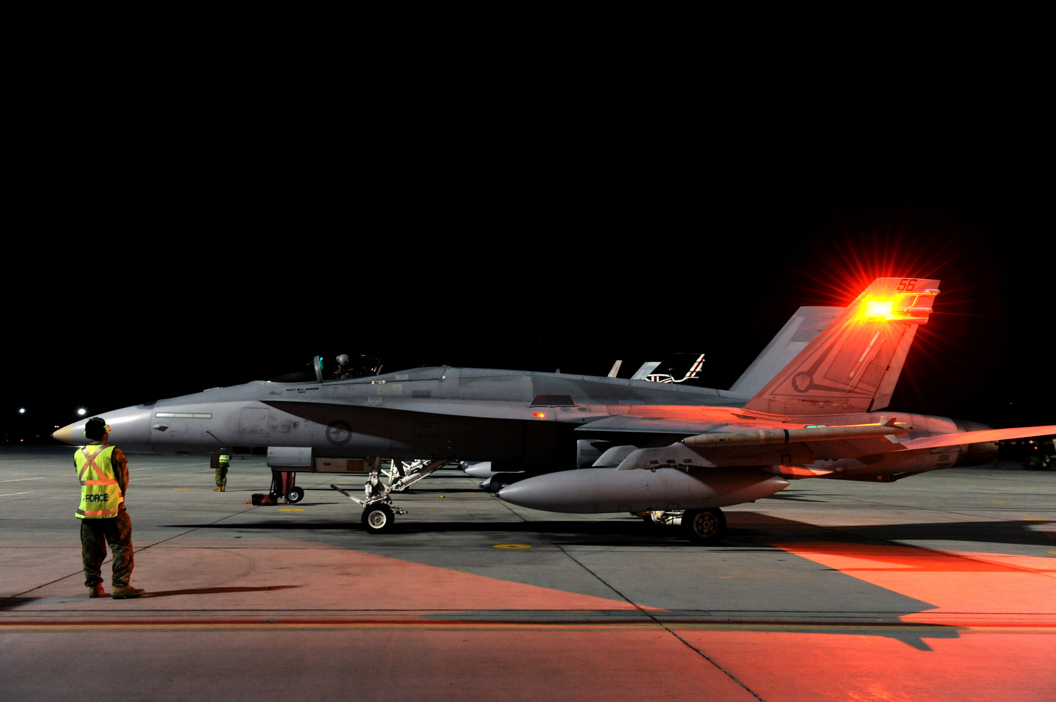 NELLIS AIR FORCE BASE, Nev. -- An airman from the 77th Squadron, Royal Australian Air Force, walks the line visually inspecting the RAAF's F/A-18 Hornets during Red Flag 10-3 Feb. 23. The 77th Squadron is deployed to Nellis from RAAF Base Williamtown, Australia.